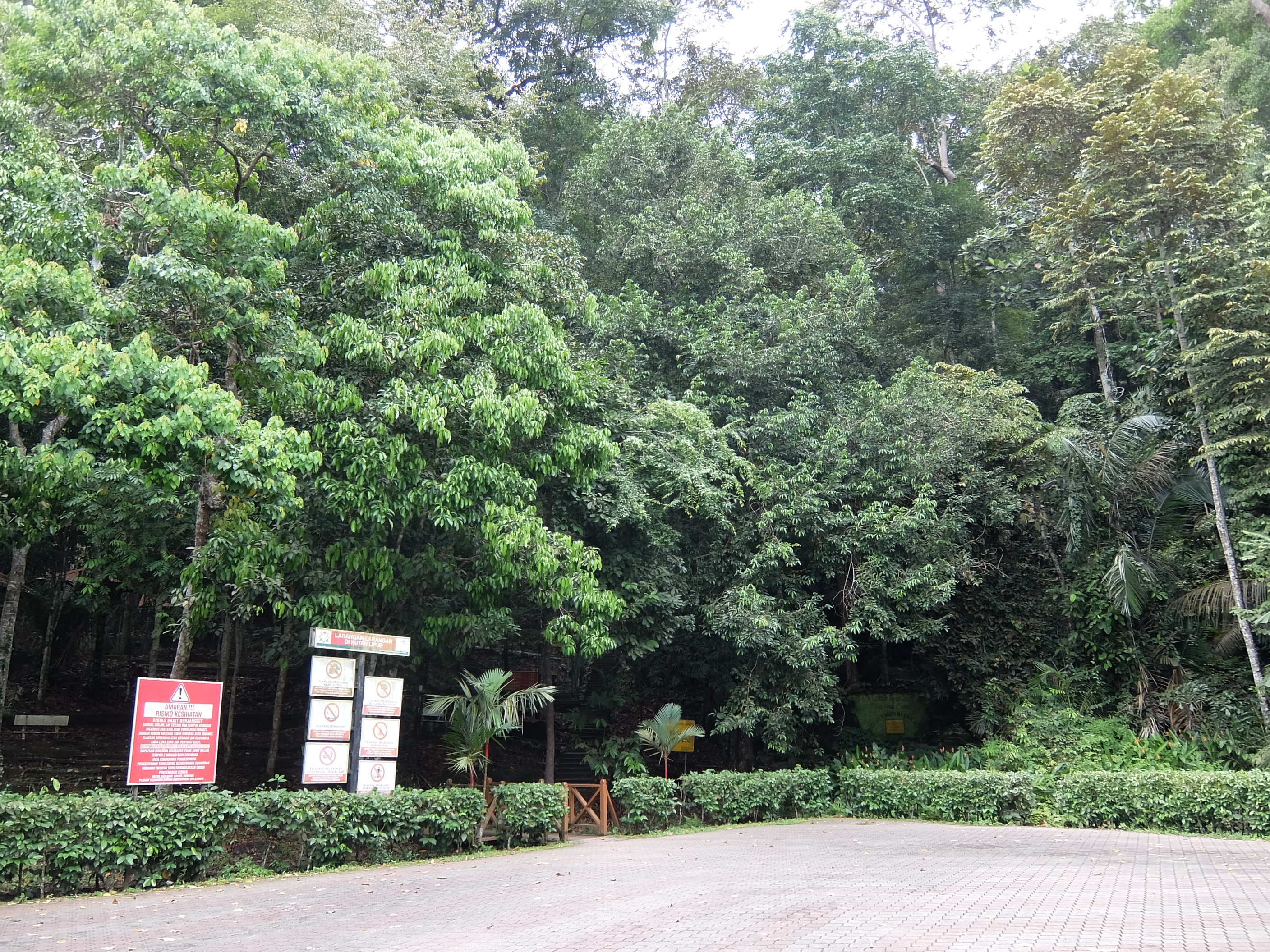 Soga Perdana Recreational Forest, Batu Pahat, Johor, Malaysia